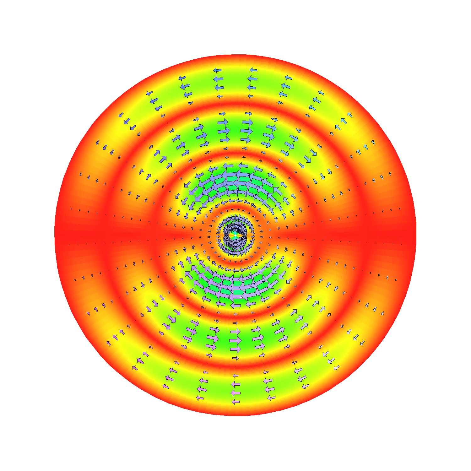 Plot of E and H fields on the TEnl mode defined by n and l.